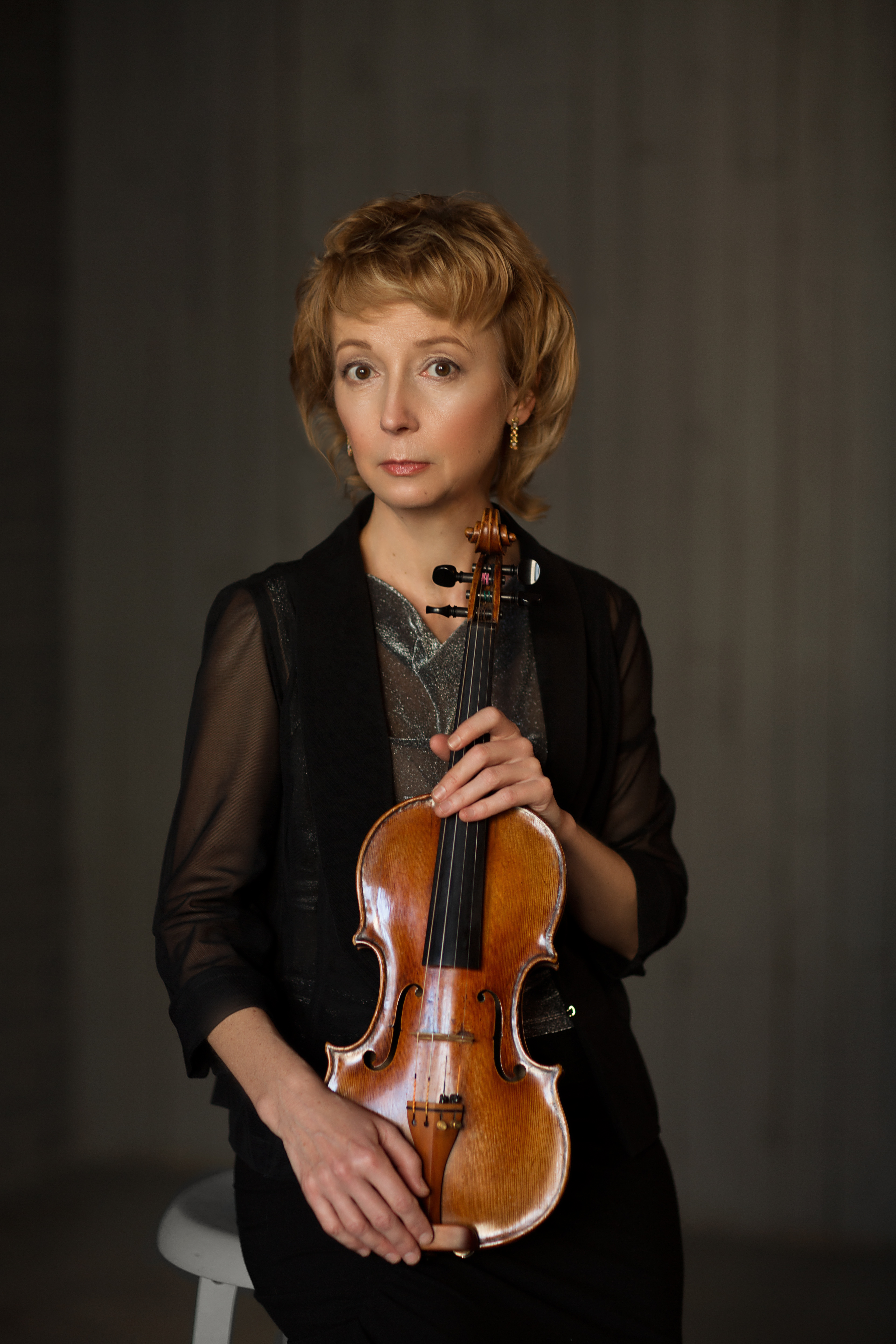 Photograph of the Artist, November 2017